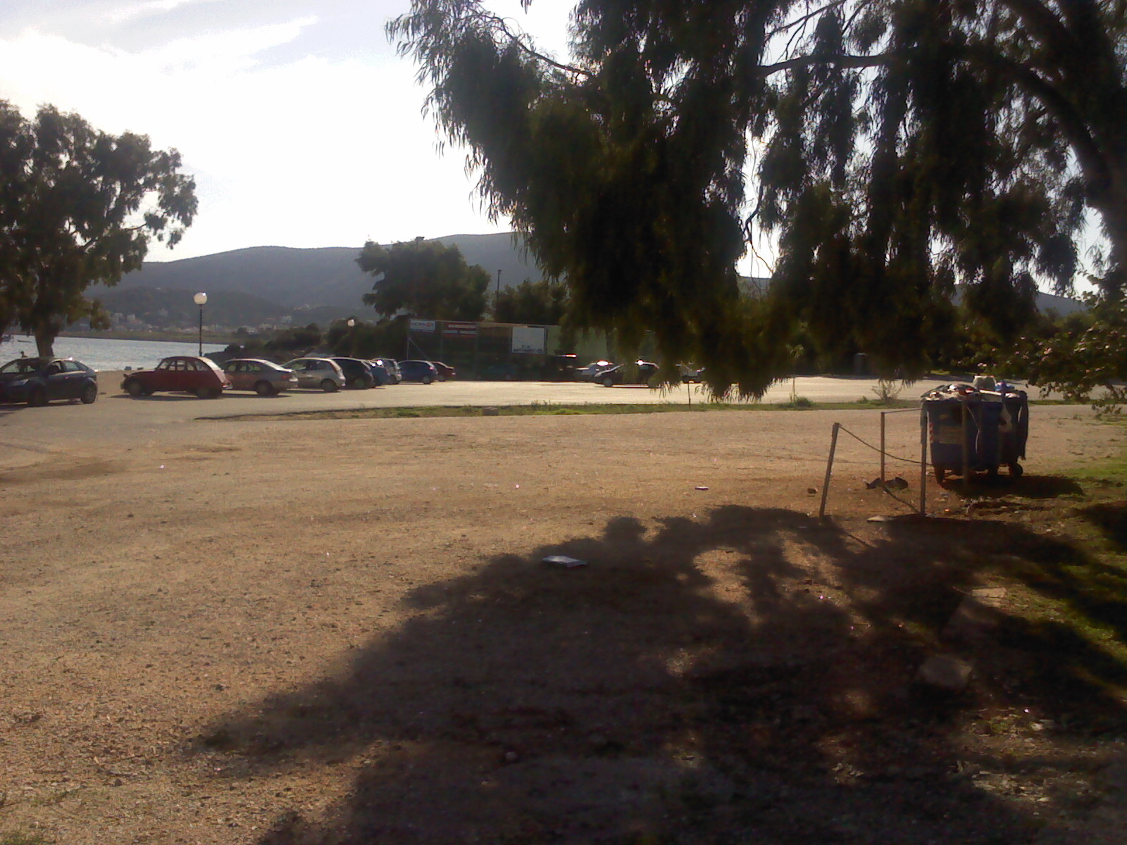 Seaside Agios Spiridon Porto Rafti